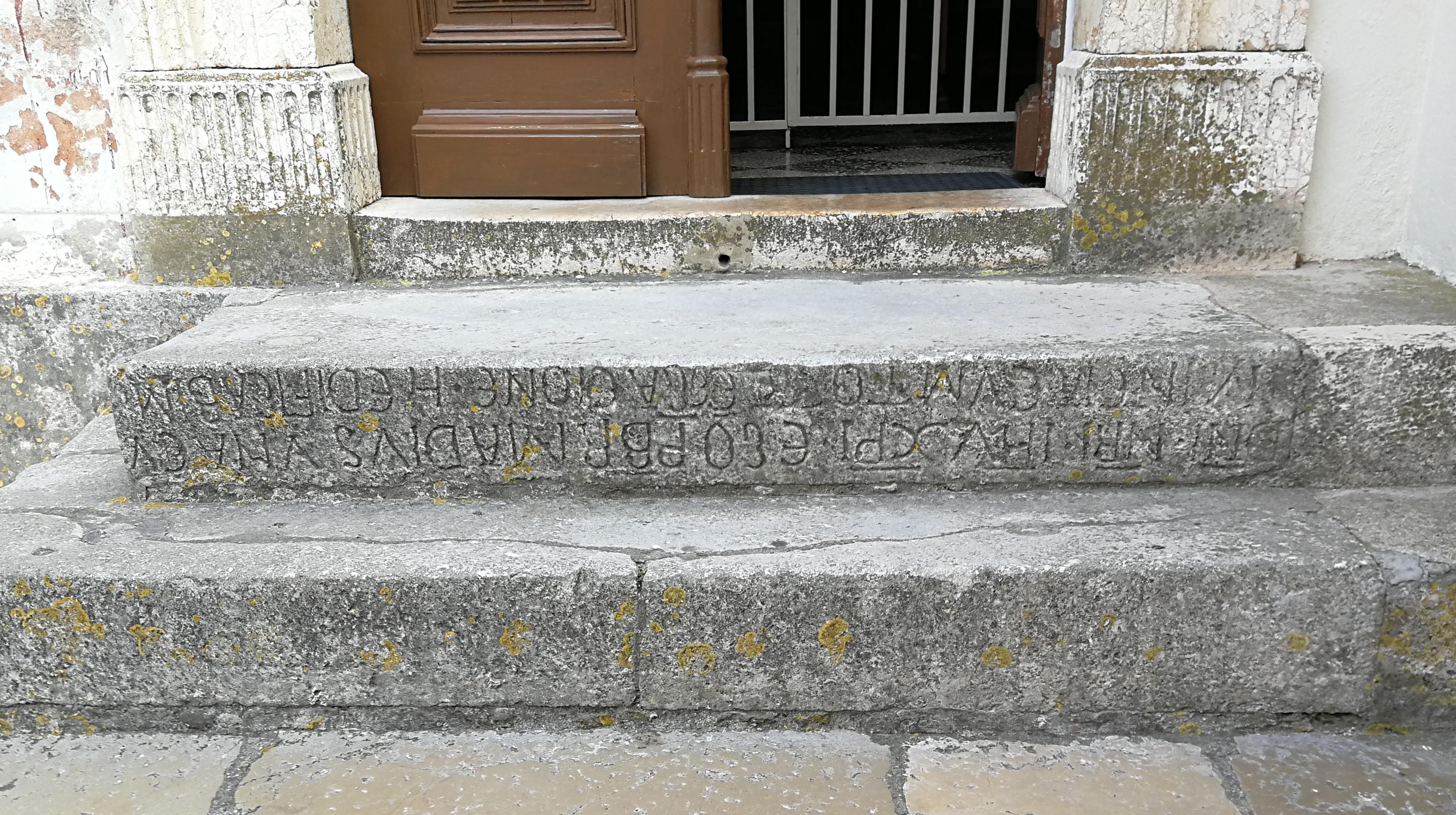 St. Andrew's Monastery at Rab (Croatia)